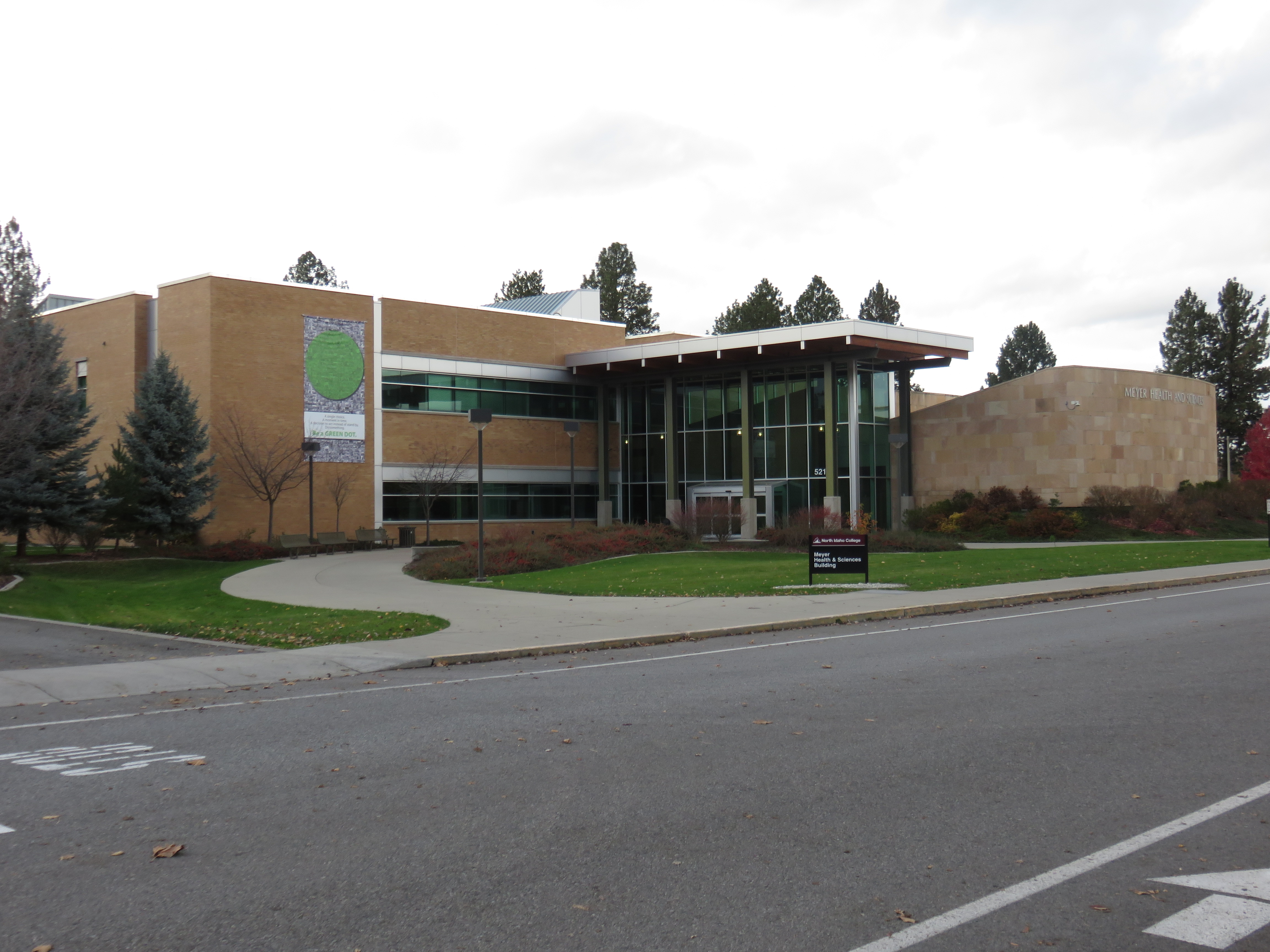 Meyer Health & Sciences Building at North Idaho College in Coeur d'Alene, Idaho in 2018